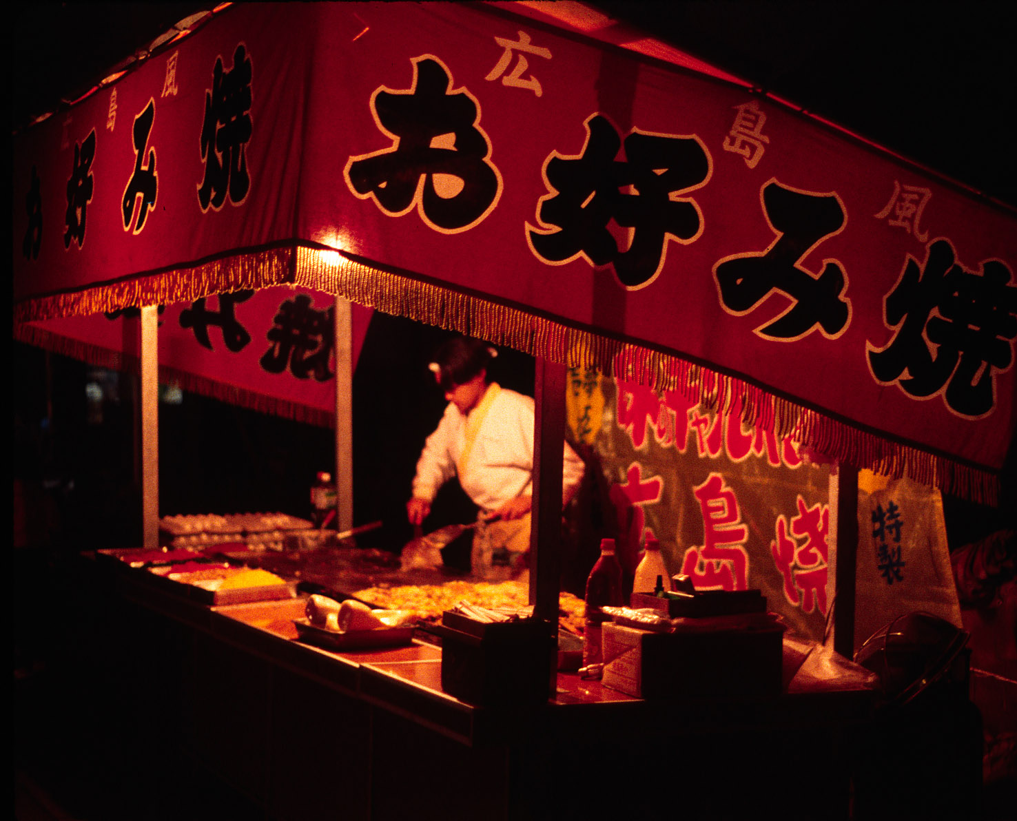 Vendors sell food from stalls at a festival in Japan